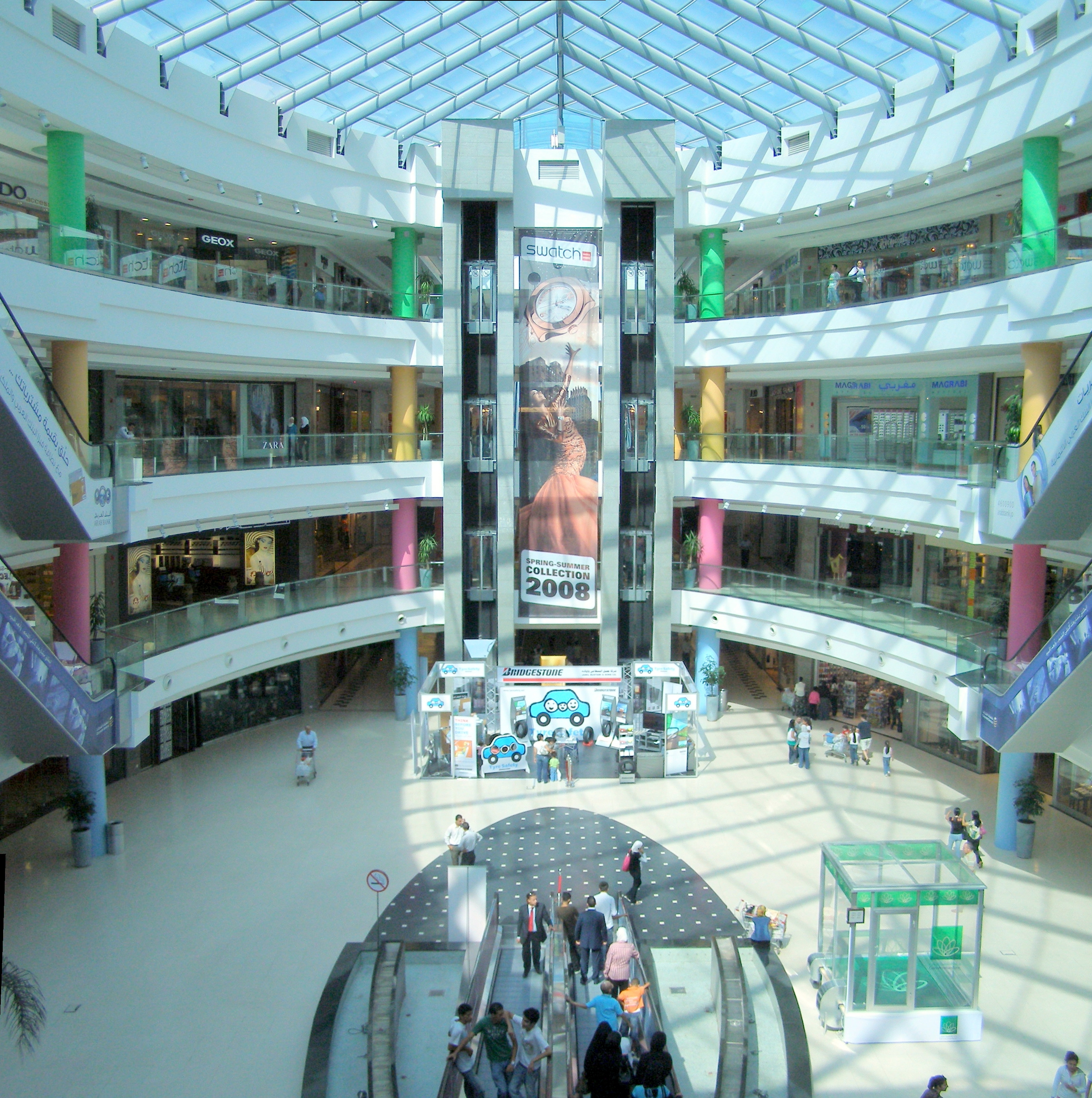 City Mall Amman